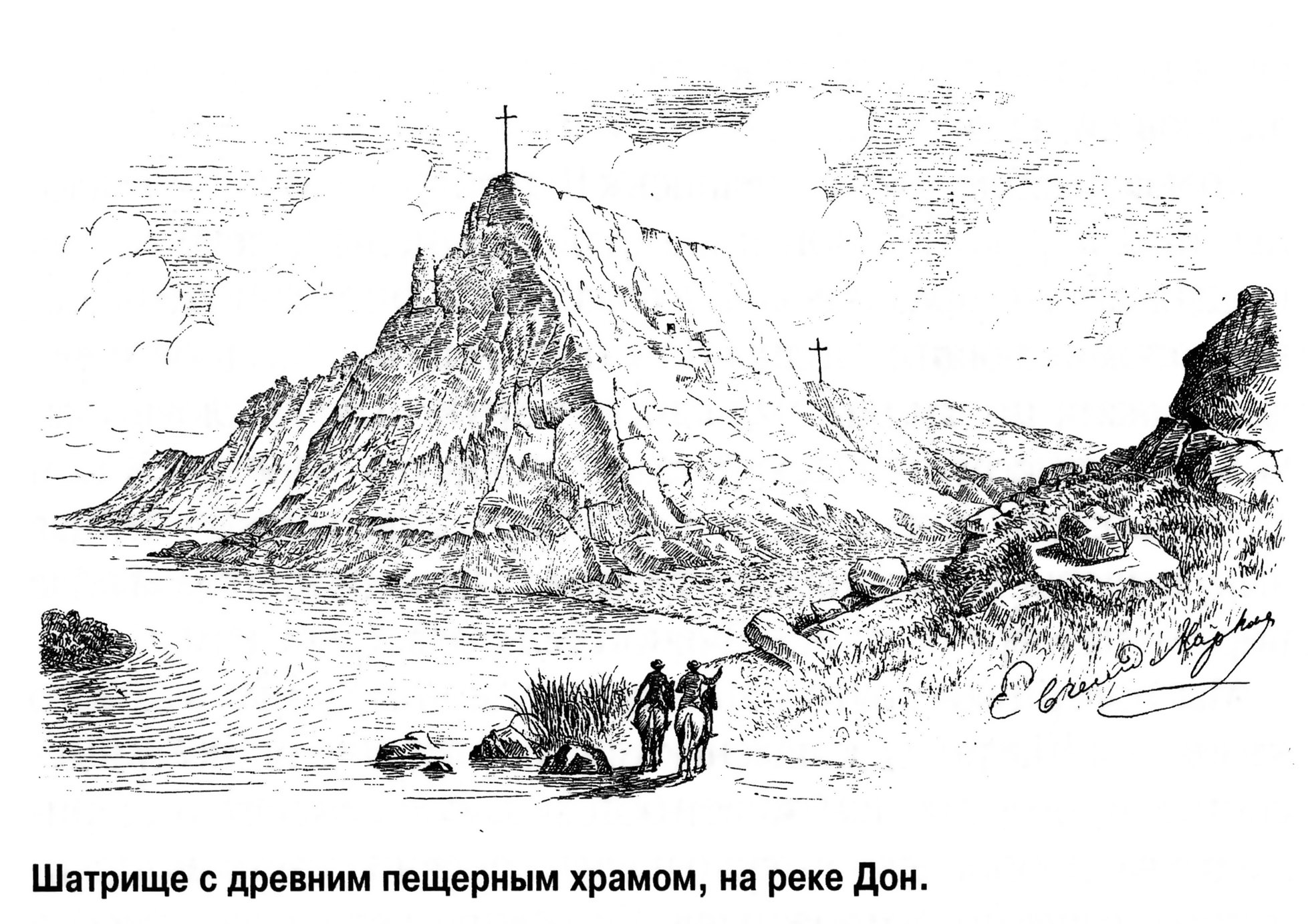 "Bol'shie Diva"